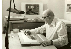 Stan Masters (1922–2005) DescriptionAmerican painterrealist paintingDate of birth/death 4 July 1922 13 December 2005Location of birth/death Kirkwood MaplewoodAuthority control : Q7597782 creator QS:P170,Q7597782 Photo 1985